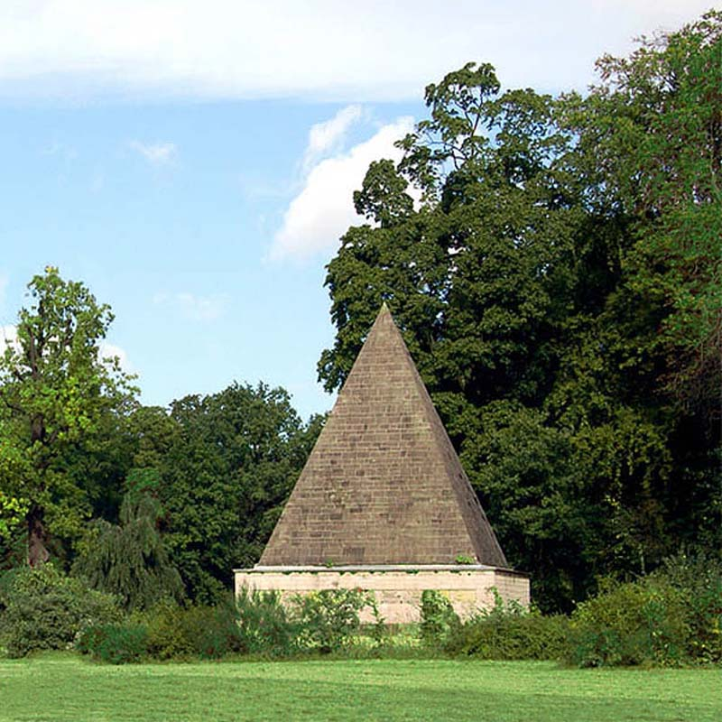 pyramid in the New Garden in Potsdam, Germany